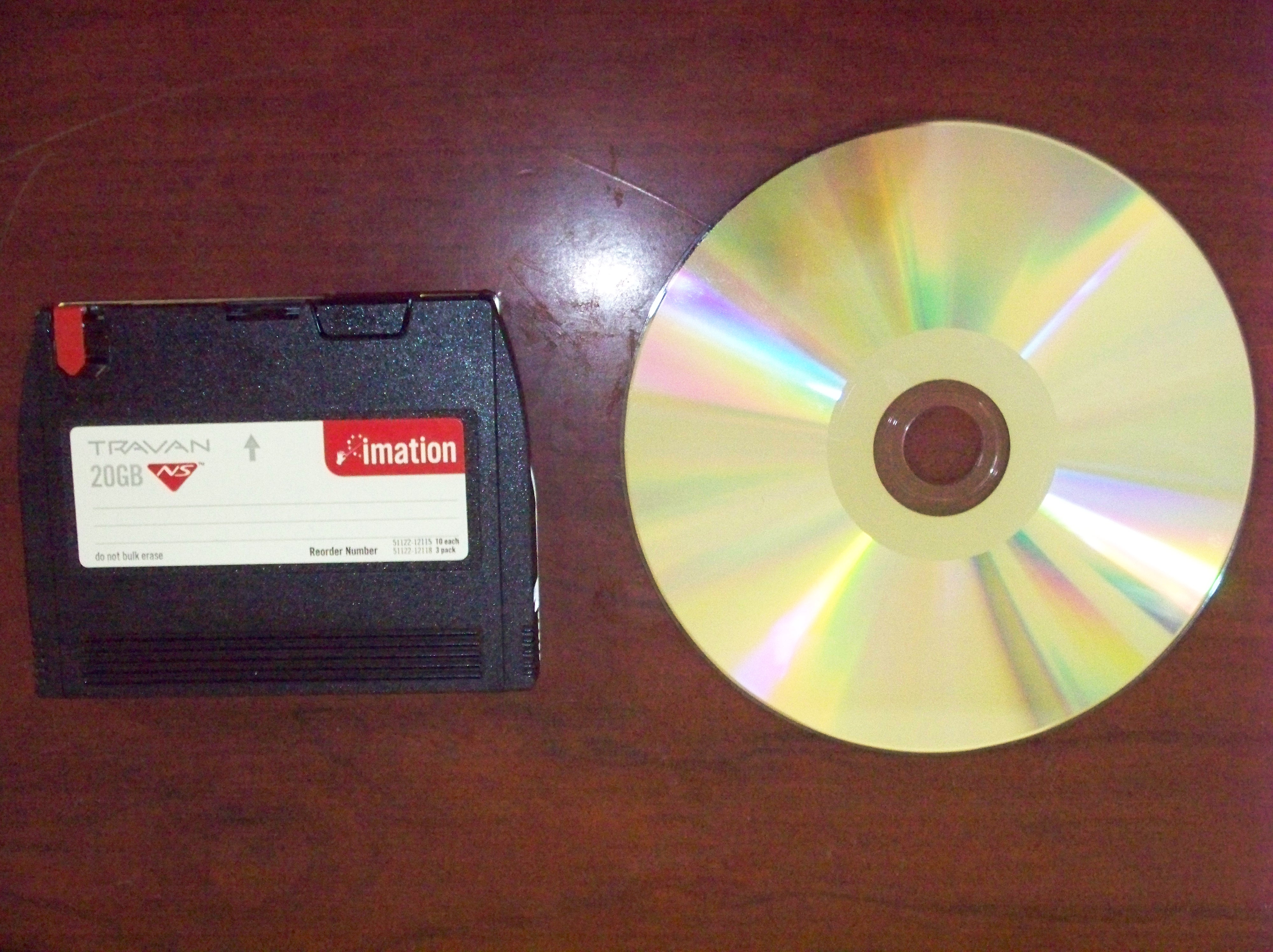 Picture of a Travan tape cartridge.